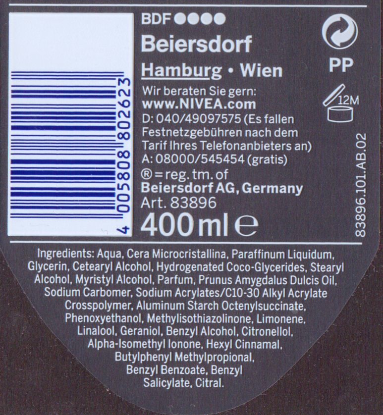 INCI-Code